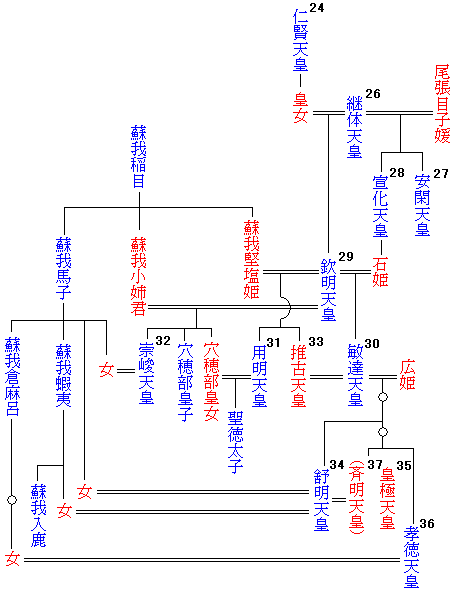 Family tree of the emperor of Japan, from 26th to 37th 天皇家系図 26代～37代